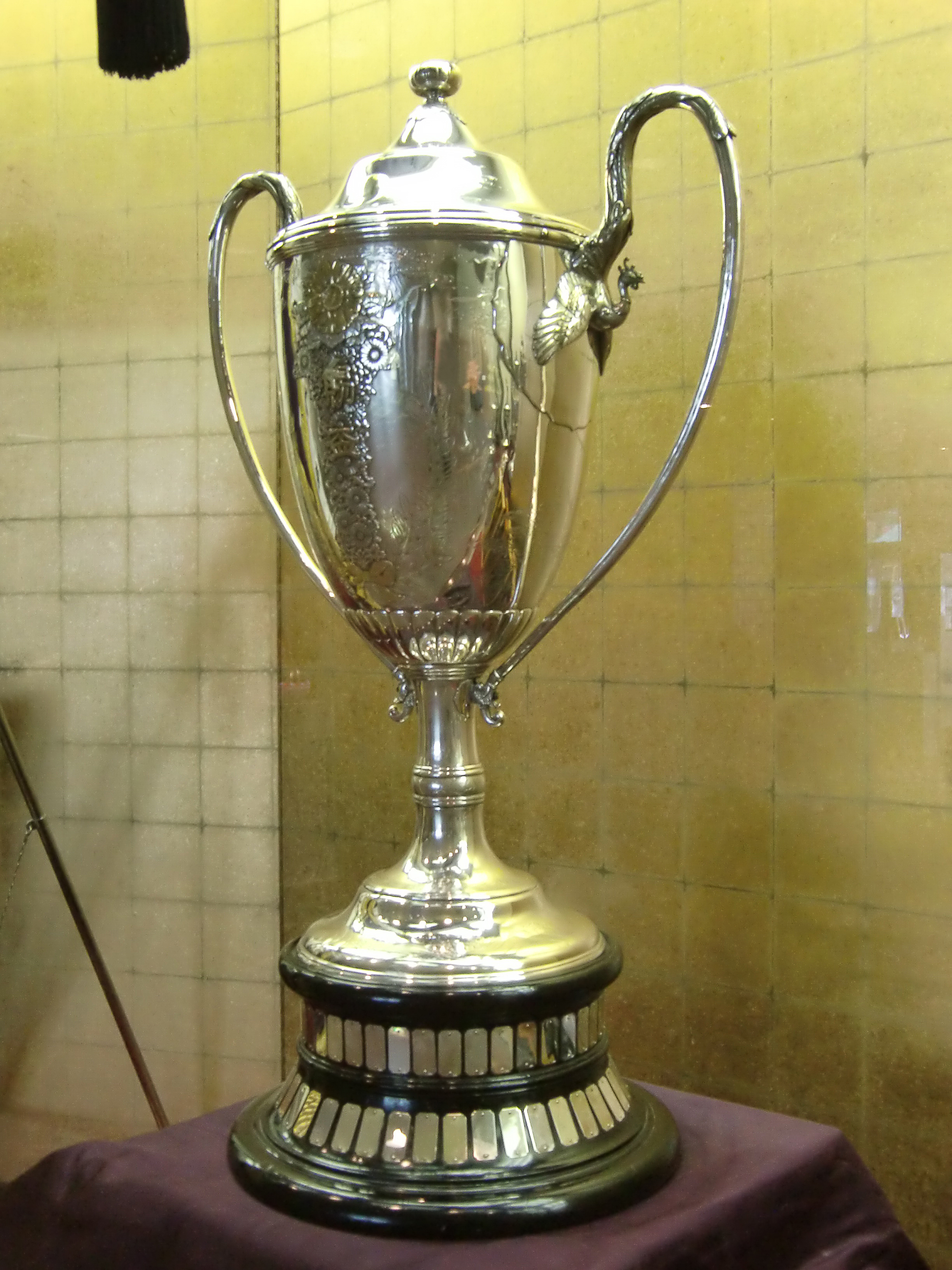 Taken by myself at a recent tournament